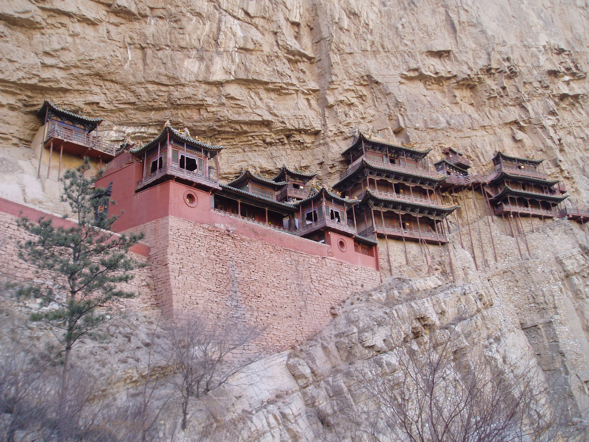 The Hanging Monastery, Heng Shan, Shanxi, China